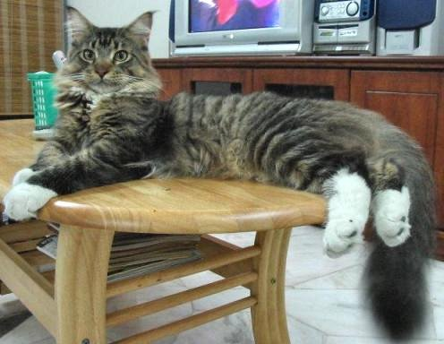 This is my son, Rory. The photo is.. of course taken by me